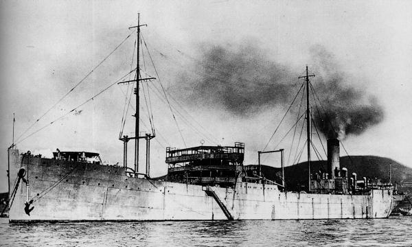 Hayatomo, oiler of the Imperial Japanese Navy, completed in 1924.